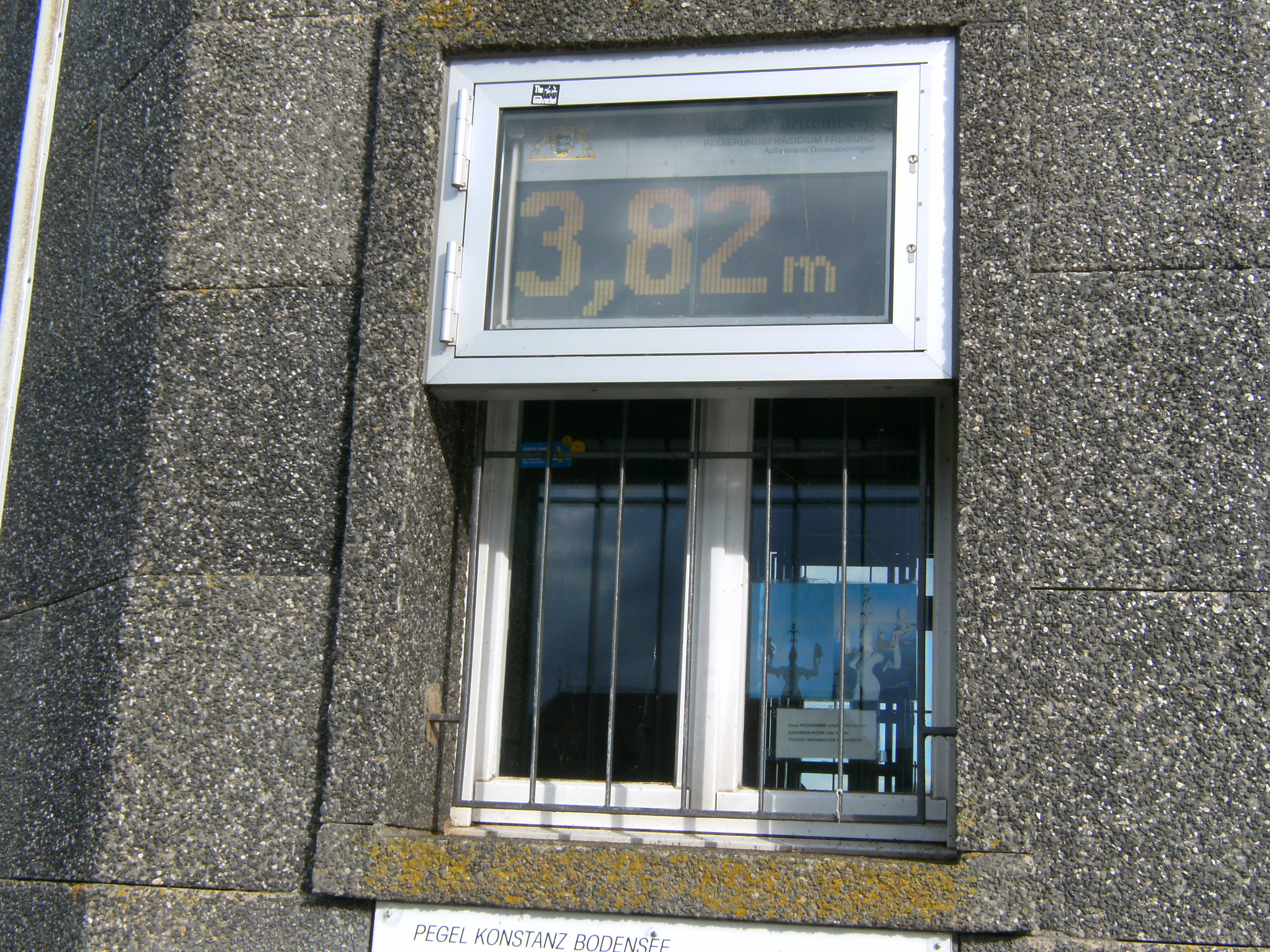 Konstanz am Bodensee, level rod at harbour. Water level at October, 6 2017 was 3.82 meter. Digital information.